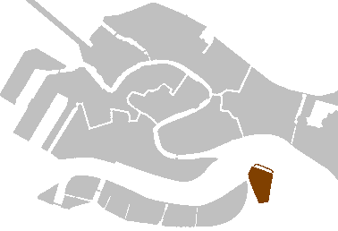 The island of San Giorgio Maggiore shown within Venice